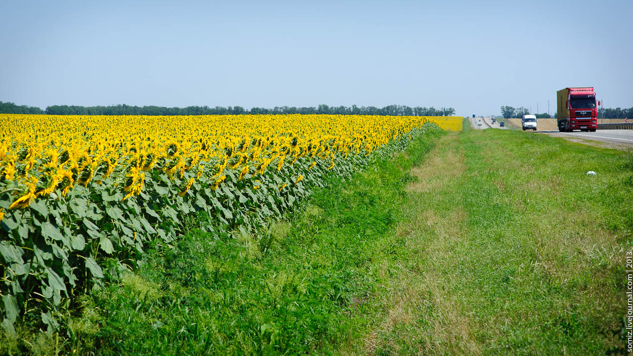 Distance from Moscow to Gelendzhik is 1500 km. Summer 2013.